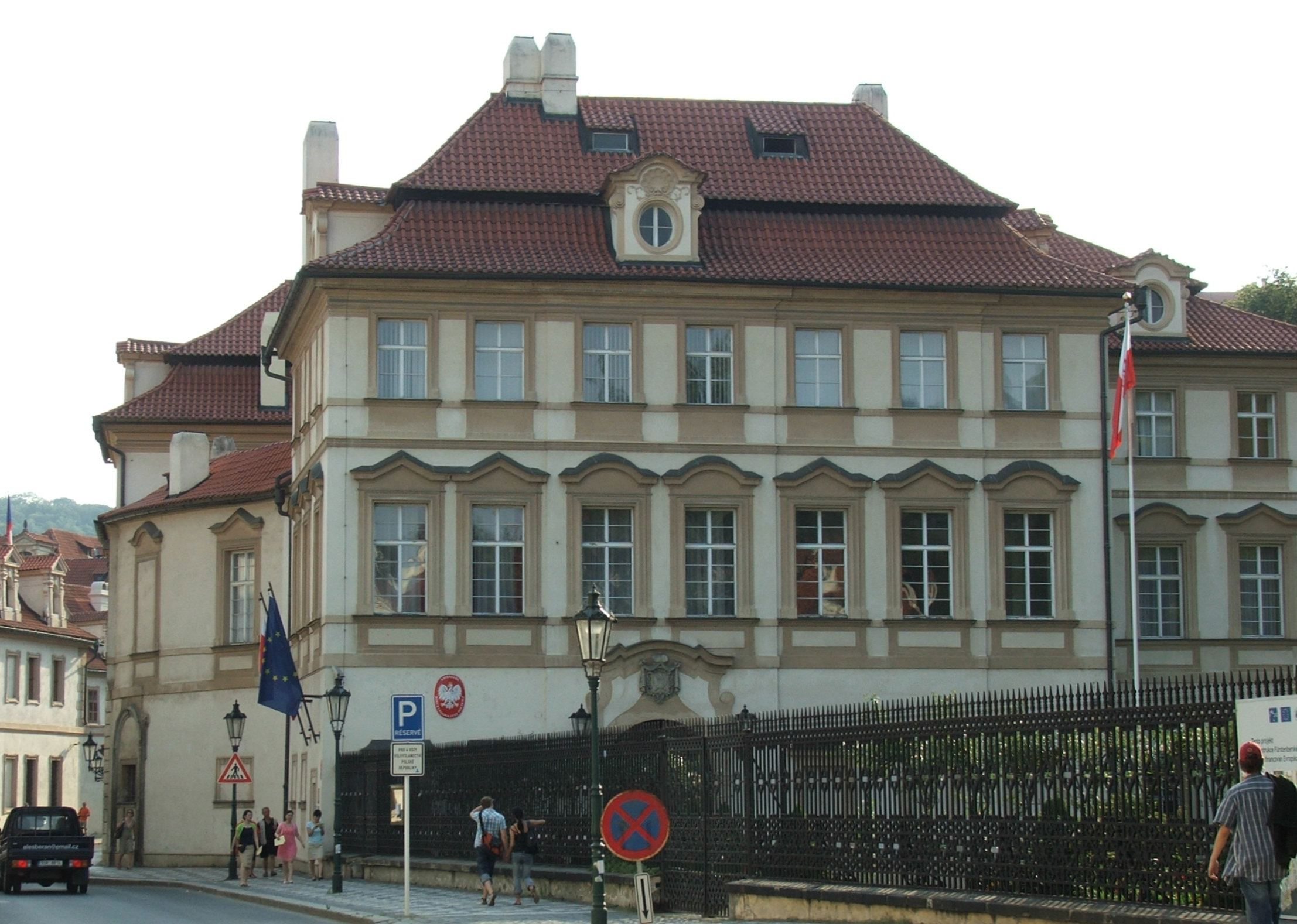 Fürstenberg Palace - seat of the Embassy of Poland in Prague - Malá Strana, Czechia